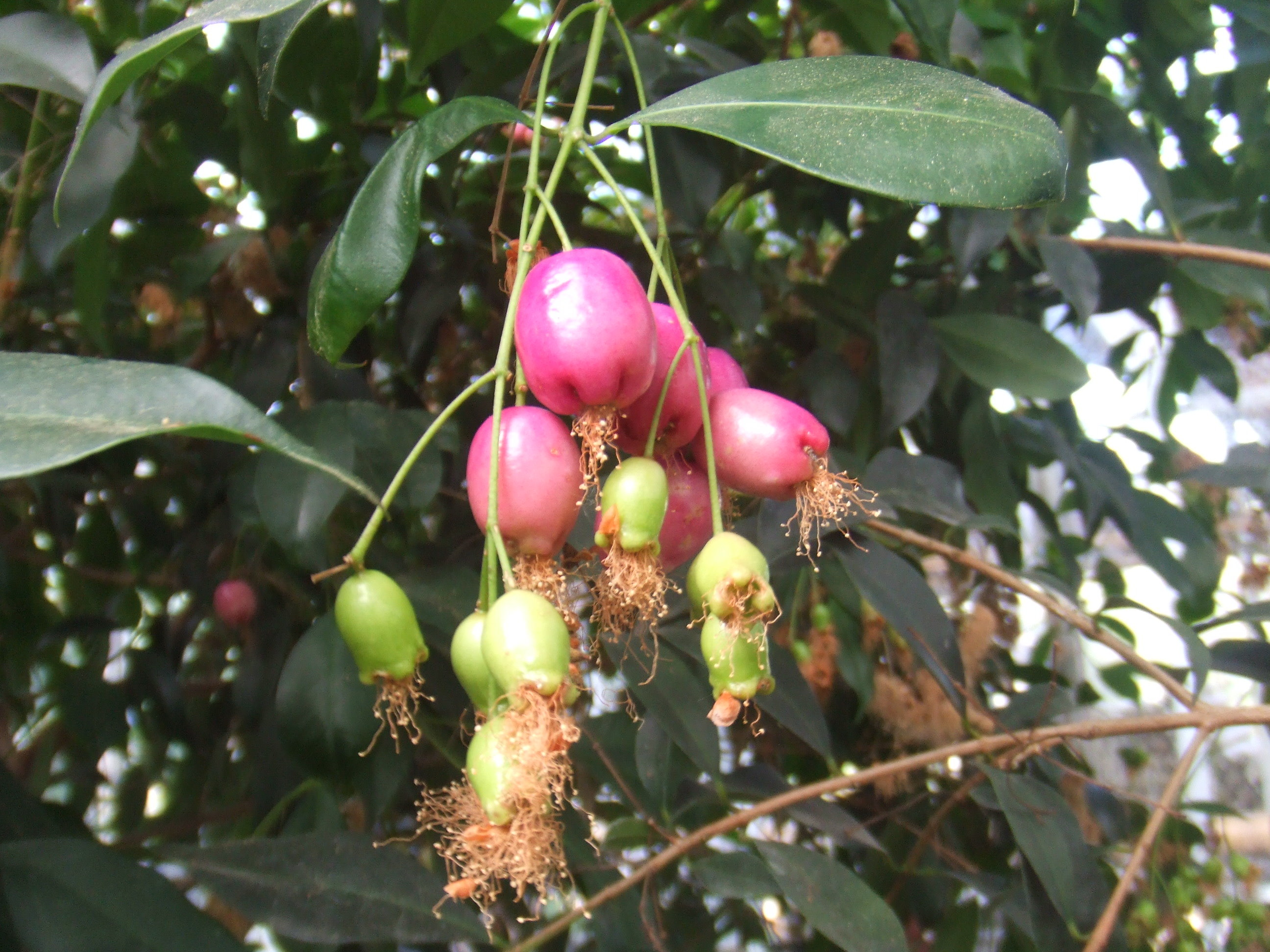 Syzygium_oleosum, picture taken at a garden center